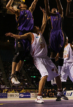 FEBRUARY 15, 2009 - Basketball : bj-league 2008-2009 match at Ariake Coliseum on February 15, 2009 in Tokyo, Japan. (Photo by Tsutomu Takasu)